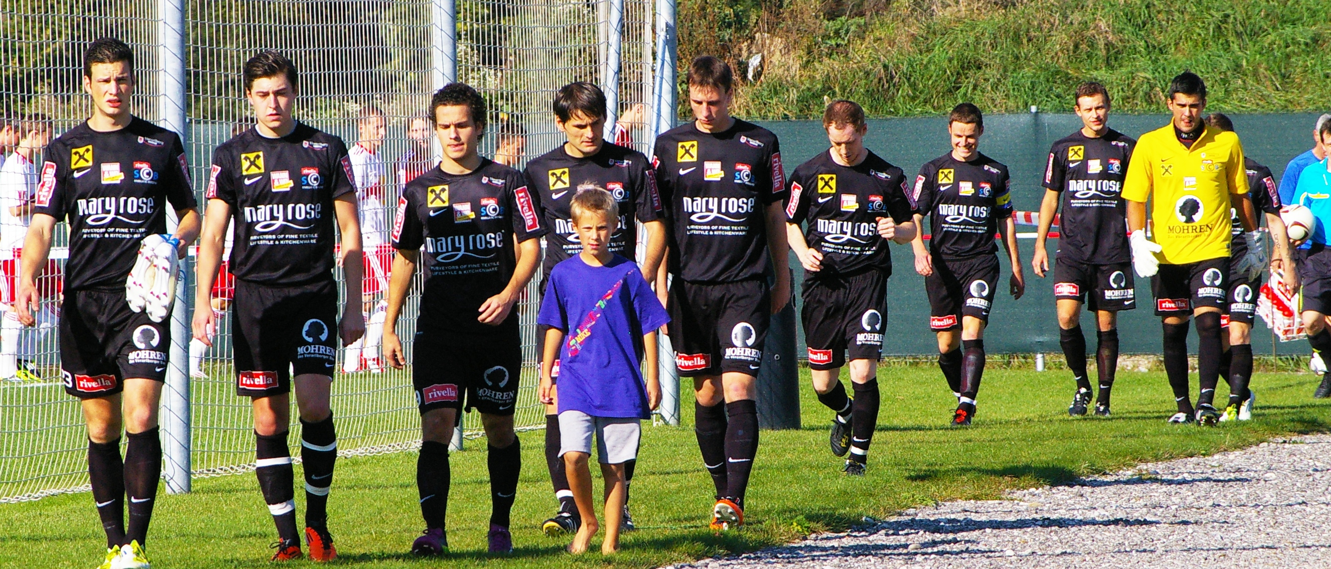 the team of SC Bregenz before the awaymatch vs. Red Bull Salzburg Juniors